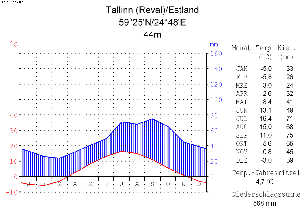 climate chart in the format by Walter and Lieth, metric, °Celsisus and millimeters, made with Geoklima 2.1